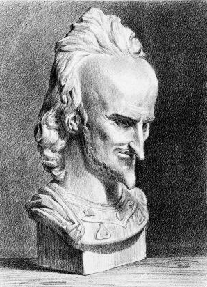 French opera singer Nicolas-Prosper Levasseur (1791-1871) by Grandville (1803-1847) after a bust by Jean-Pierre Dantan (1800-1869)